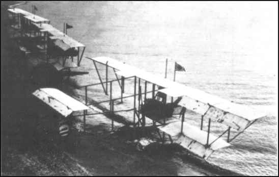 Three of the Imperial Japanese Navy's Maurice-Farman airplanes in Tsingtao, China, 1914.